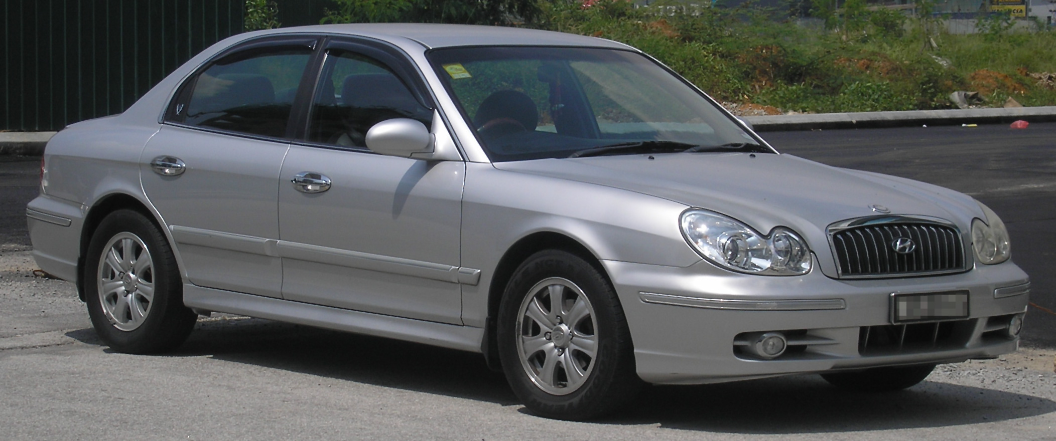 Front quarter view of an updated third generation Hyundai Sonata, in Serdang, Selangor, Malaysia.